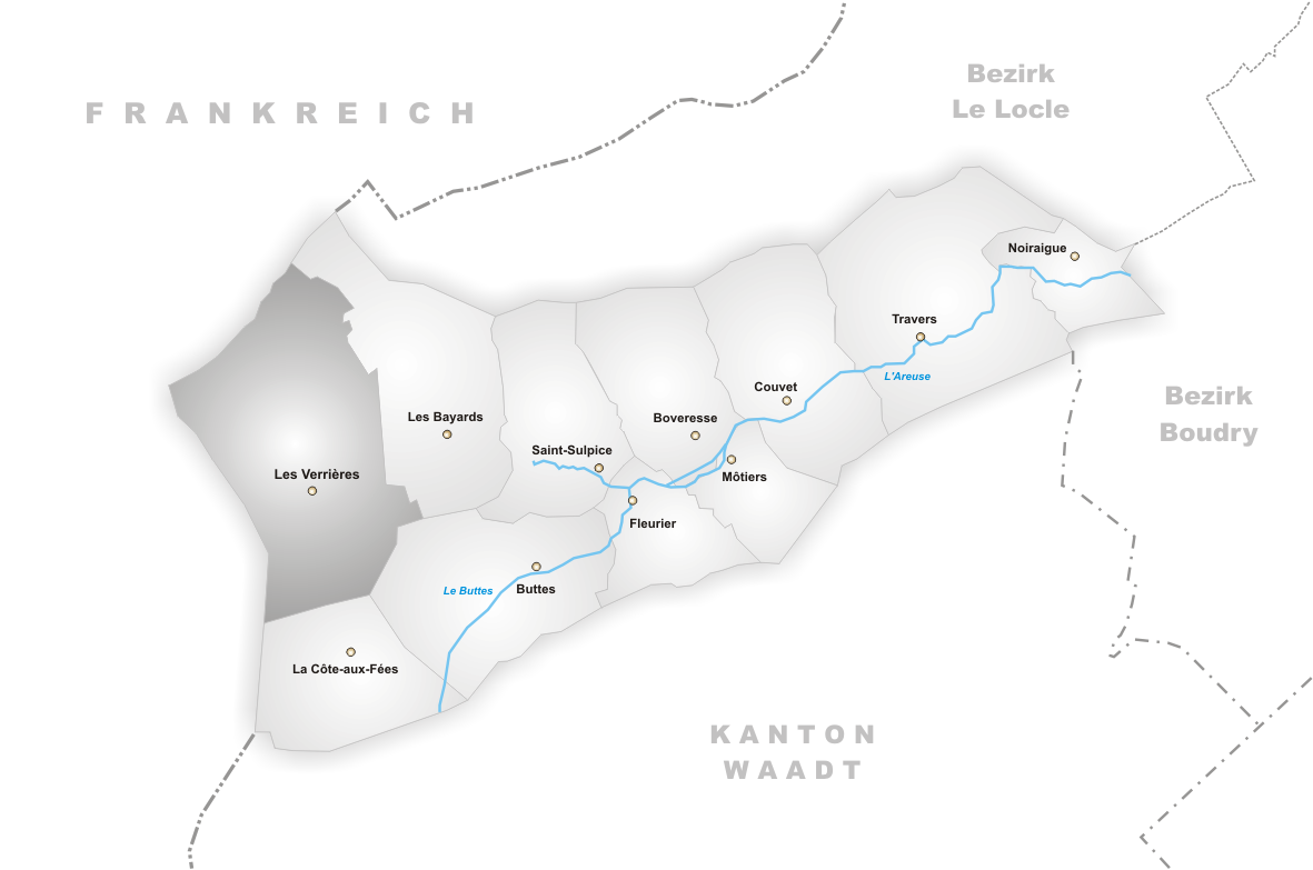 Municipality Les Verrières